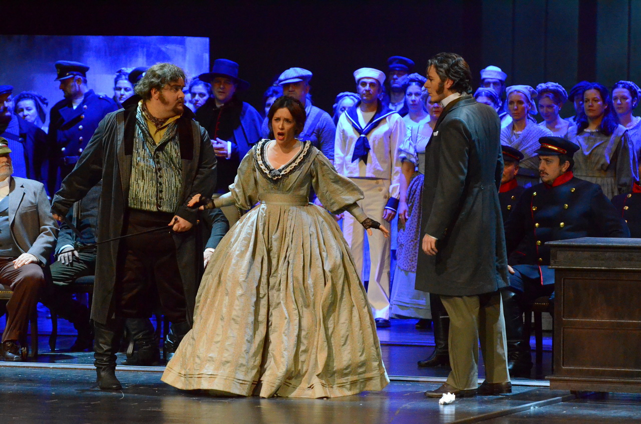 "Simon Boccanegra ", an opera with a prologue and three acts by Giuseppe Verdi to an Italian libretto by Francesco Maria Piave, based on the play Simón Bocanegra (1843) by Antonio García Gutiérrez; directed by Caterina Panti Liberovici; Opera of the Serbian National Theatre, Novi Sad, 2013/14; Saša Petrović, Danijela Jovanović, Vasa Stajkić Srpski (latinica): „Simon Bokanegra”, opera sa prologom u tri čina Đuzepe Verdija sa libretom Italijana Frančeska Maria Pjave Opera SNP, Novi Sad, 2013/14. prema istoimenoj drami (iz 1843) Antonija Garsije Gutijeresa u režiji Katerine Panti Liberoviči; Opera Srpskog narodnog pozorišta, Novi Sad, 2013/14; Saša Petrović, Danijela Jovanović, Vasa Stajkić Српски (ћирилица): „Симон Боканегра“, опера са прологом у три чина Ђузепе Вердија са либретом Италијана Франческа Мариа Пјаве Опера СНП, Нови Сад, 2013/14. према истоименој драми (из 1843) Антонија Гарсије Гутијереса у режији Катерине Панти Либеровичи; Опера Српског народног позоришта, Нови Сад, 2013/14; Саша Петровић, Данијела Јовановић, Васа Стајкић